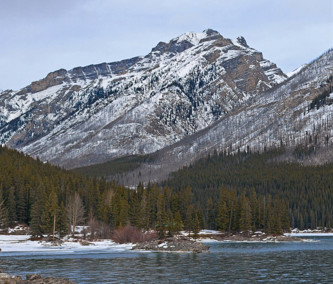 Mount Astley seen from Winnewanka Lake, Alberta Canada